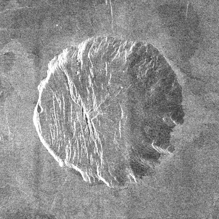 Small volcano Nertus Tholus on Venus. Radar image by Magellan, made in Left-Look mode. Width of the image is 70 km, north is up, contrast is increased.